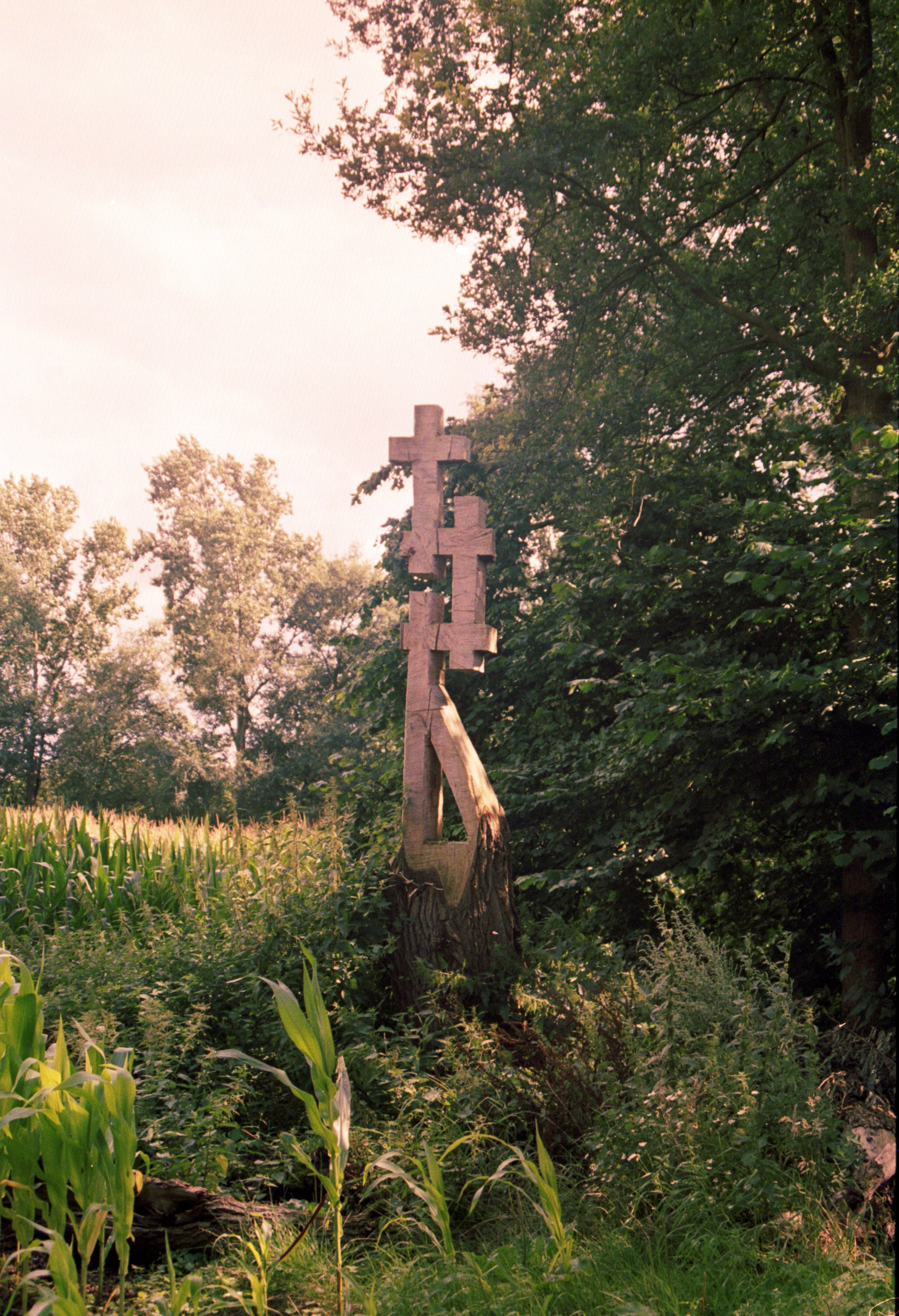 Cross to commemorate the monastery in Zwillbrock, Germany